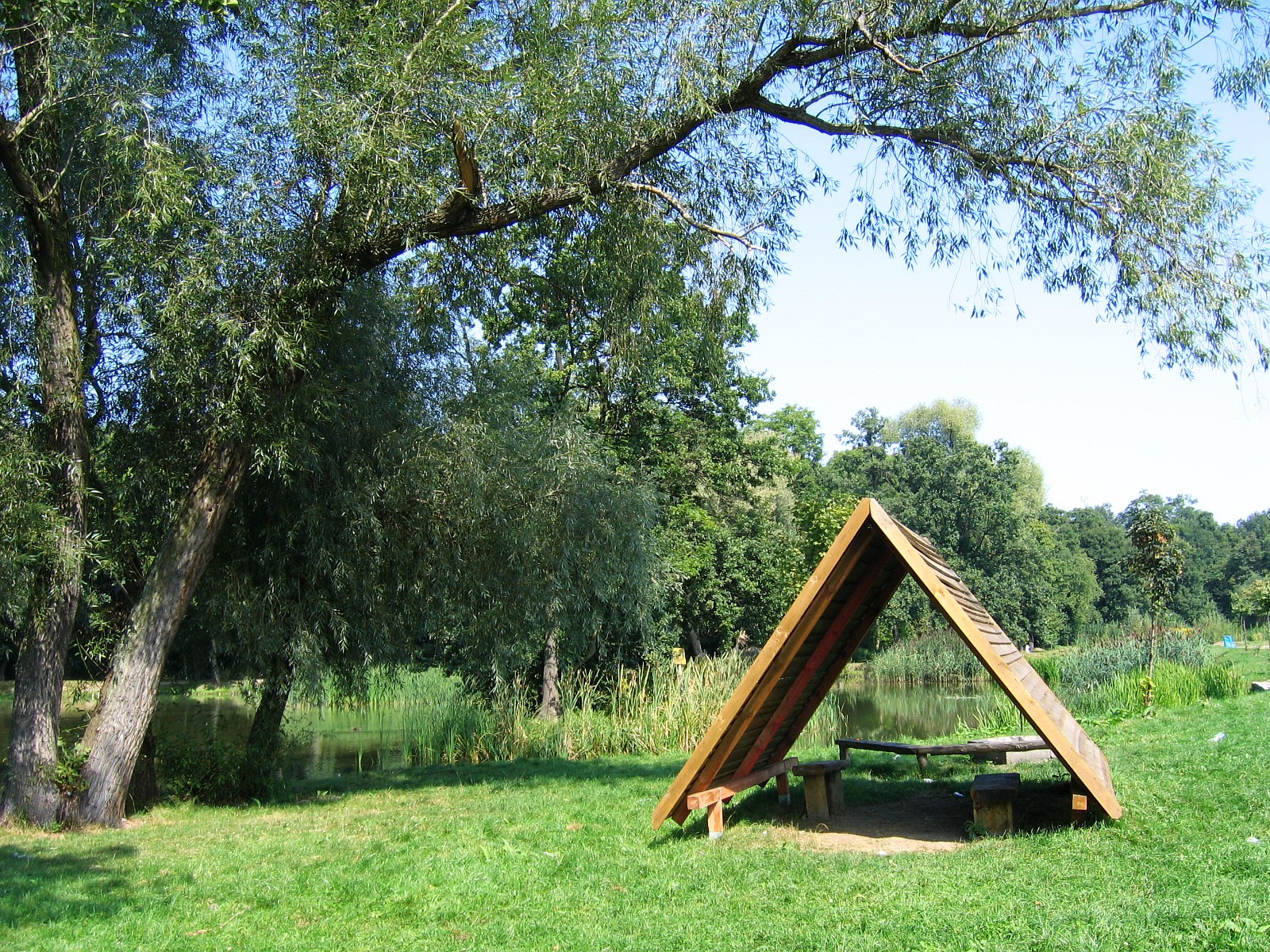 A picnic area with a bonfire spot by a larger pond in the south-eastern part of the Sołtysowicki Forest, Wrocław, Poland, in 2005. In later years rebuilt.